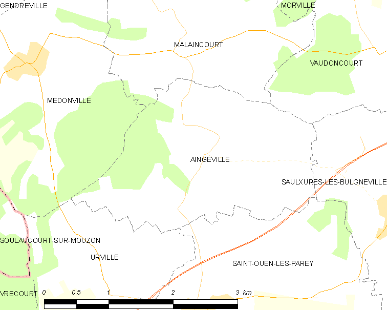 Map of French municipality Aingeville